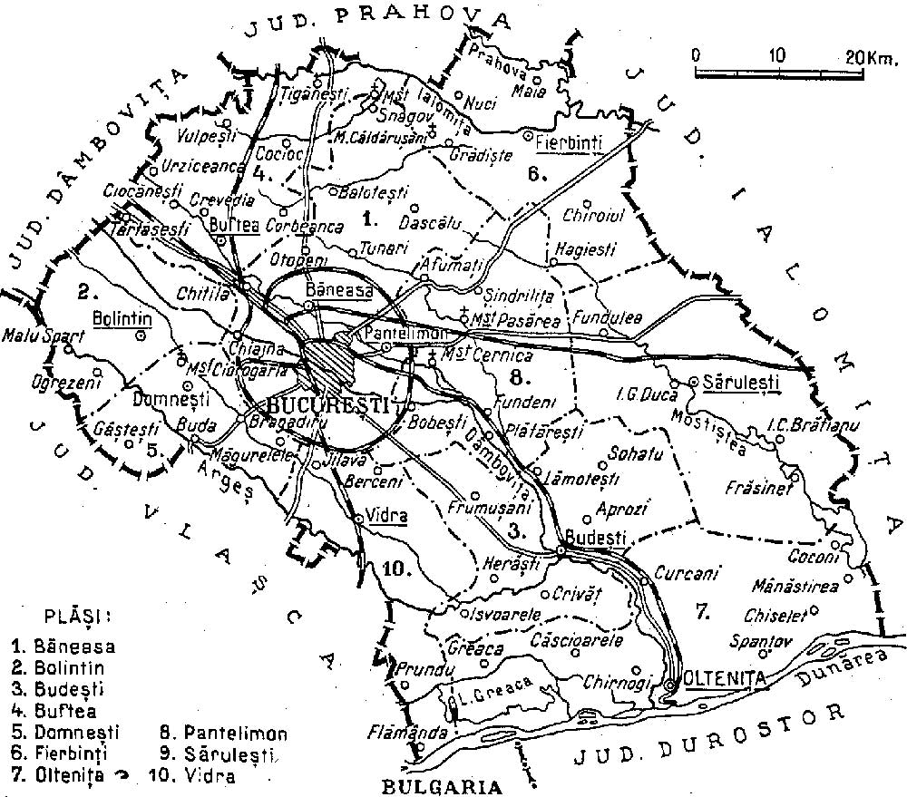 Map of Ilfov interwar county, Kingdom of Romania (1938).